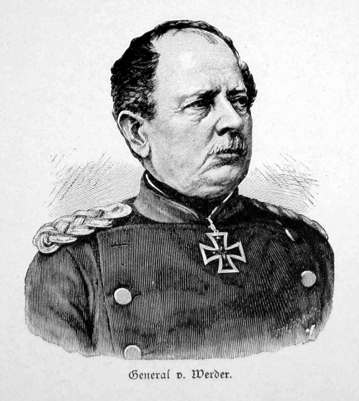 general von Werder